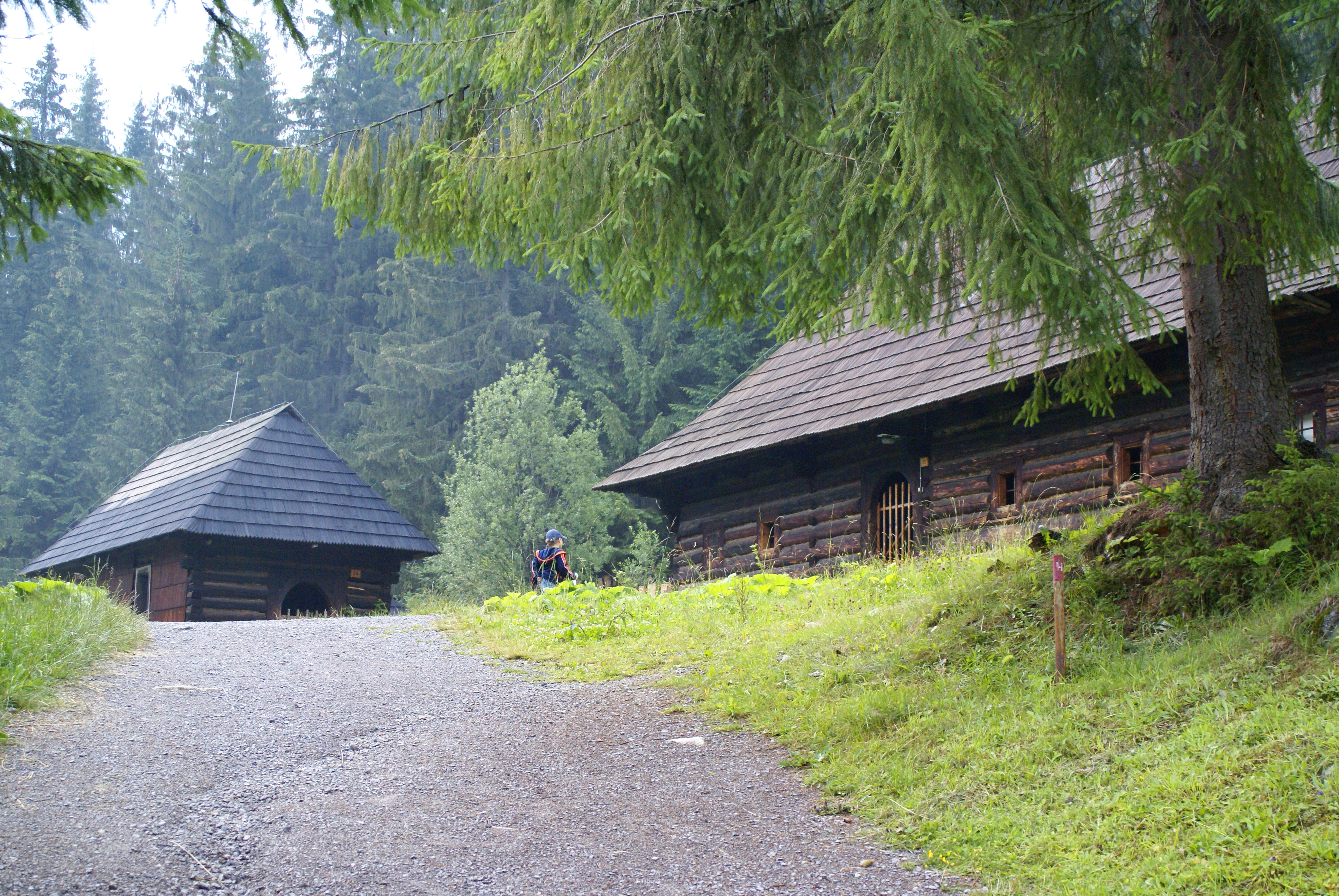 Open air museum of typical slovakian old Orava village, Zuberec, West Tatras, Slovak Republic